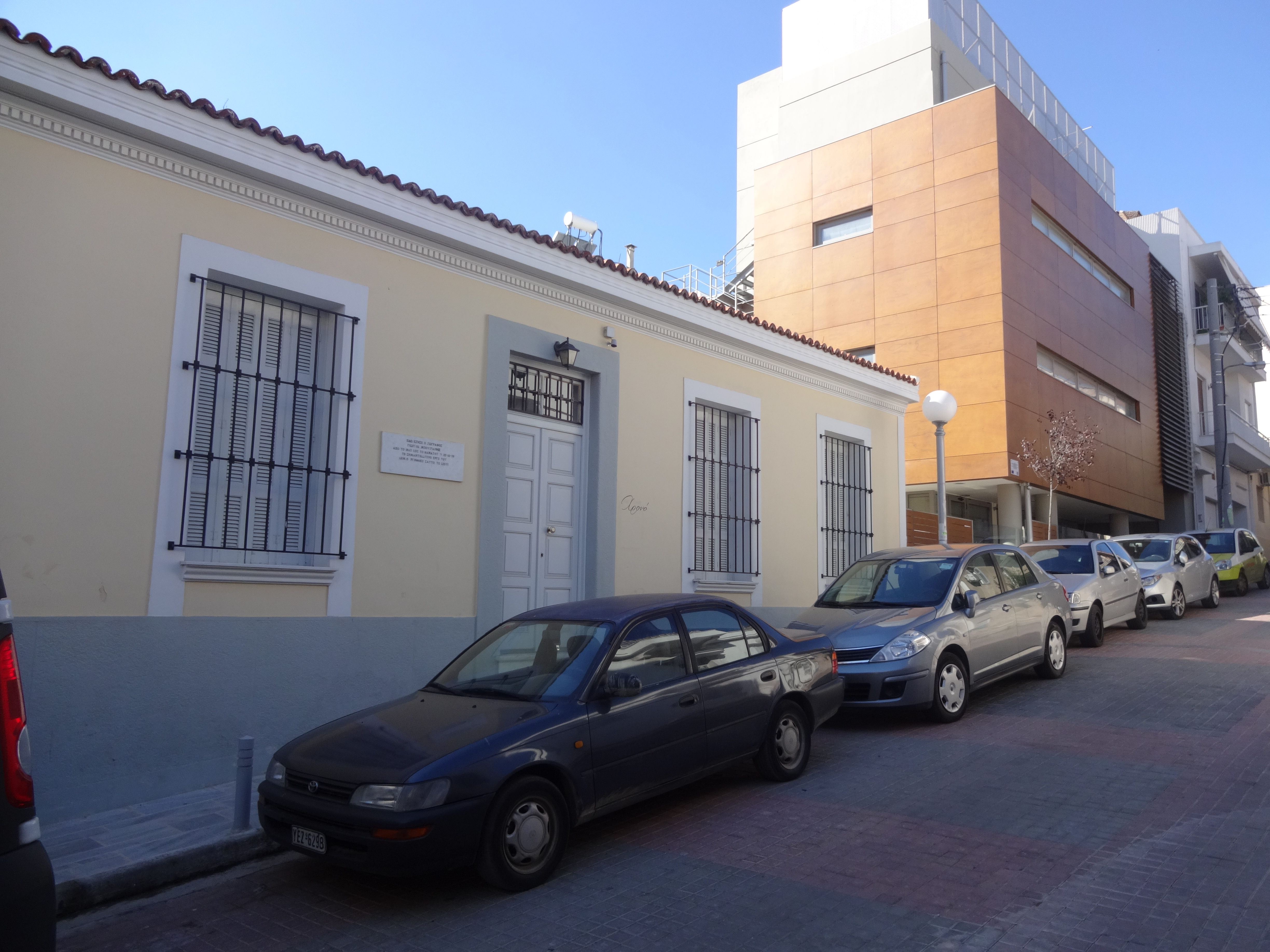 Home of Greek painter George Bouzianis and Art gallery "George Bouzianis" in municipalitet Daphni, Athens, Greece